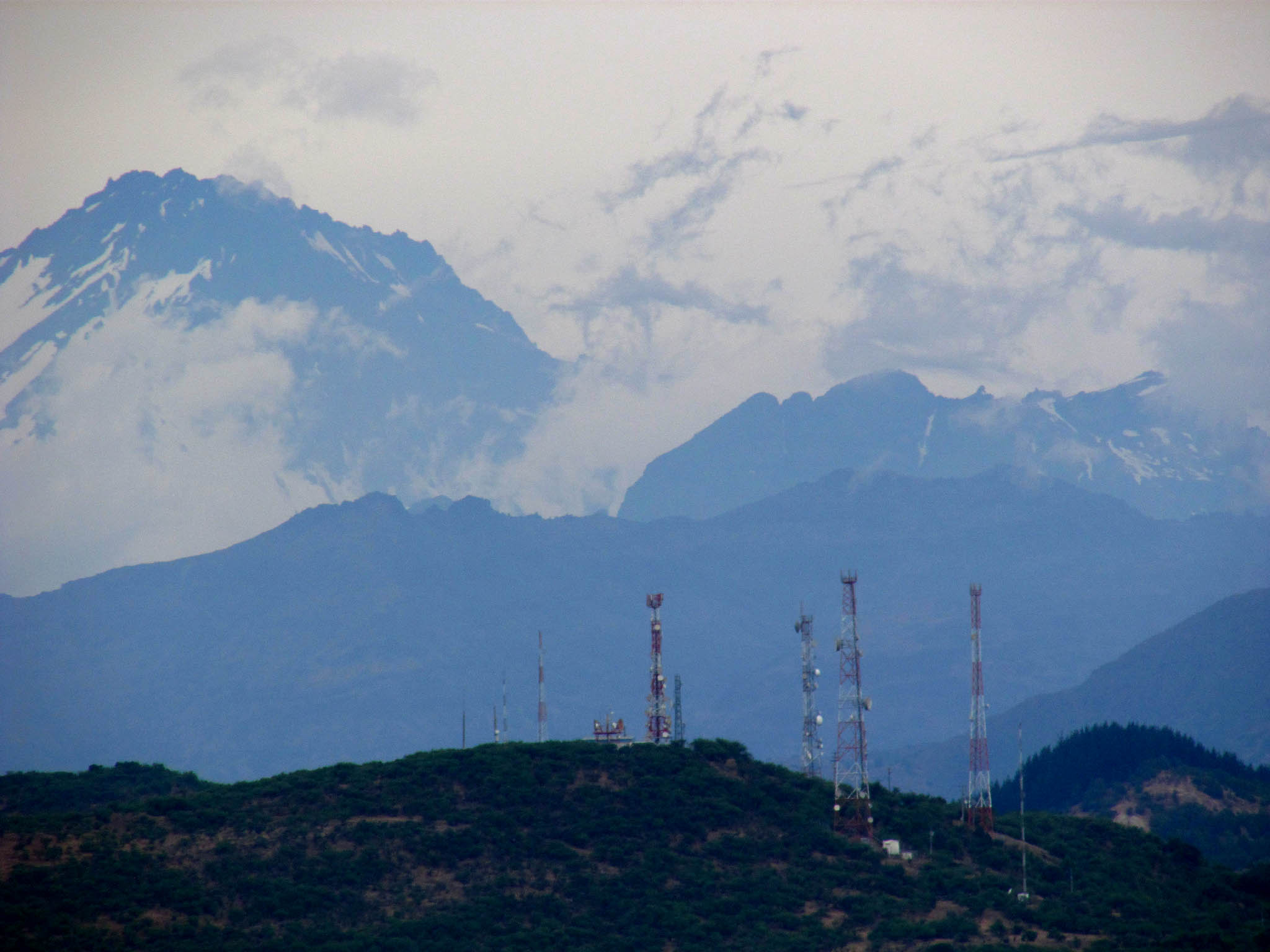 catching vibrations